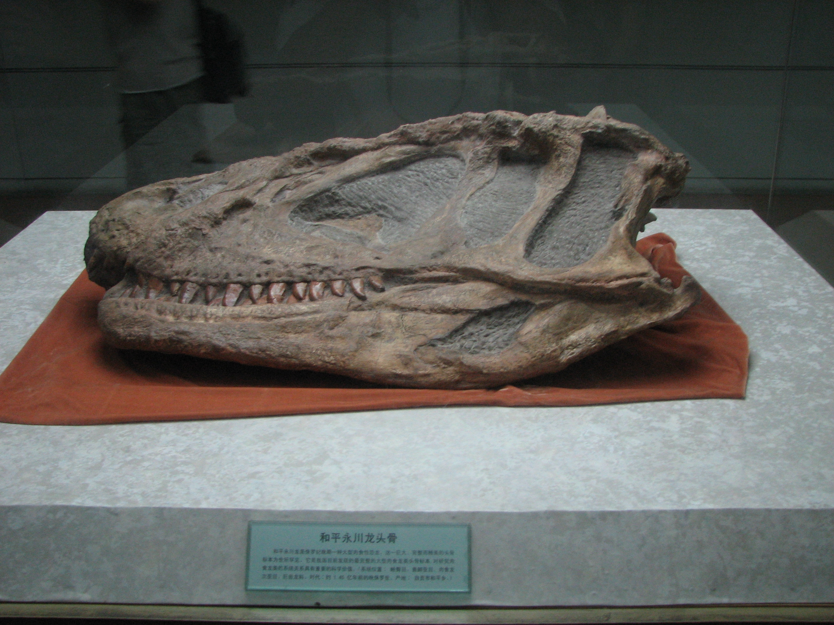 The caption below reads: "Yangchuanosaurus Hepingenis is kind of large carnivorous dinosaur of the late Jurassic. This large, complete and beautiful skull is seldom seen in the world. It is the most complete large carnosaur skull ever discovered in China, and of great scientific value in studying the systematic relationships of carnosaurs. Systematic position: Megalosauridae, Carnosauria, Theropda, Saurischia. Age: Late Jurassic (about 145 Million years ago). Locality: Heping, Zigong. This is now considered a species of Sinraptor Taken at the Zigong Dinosaur Museum, September, 2006. (Art Yang, 2006) Citation Required.